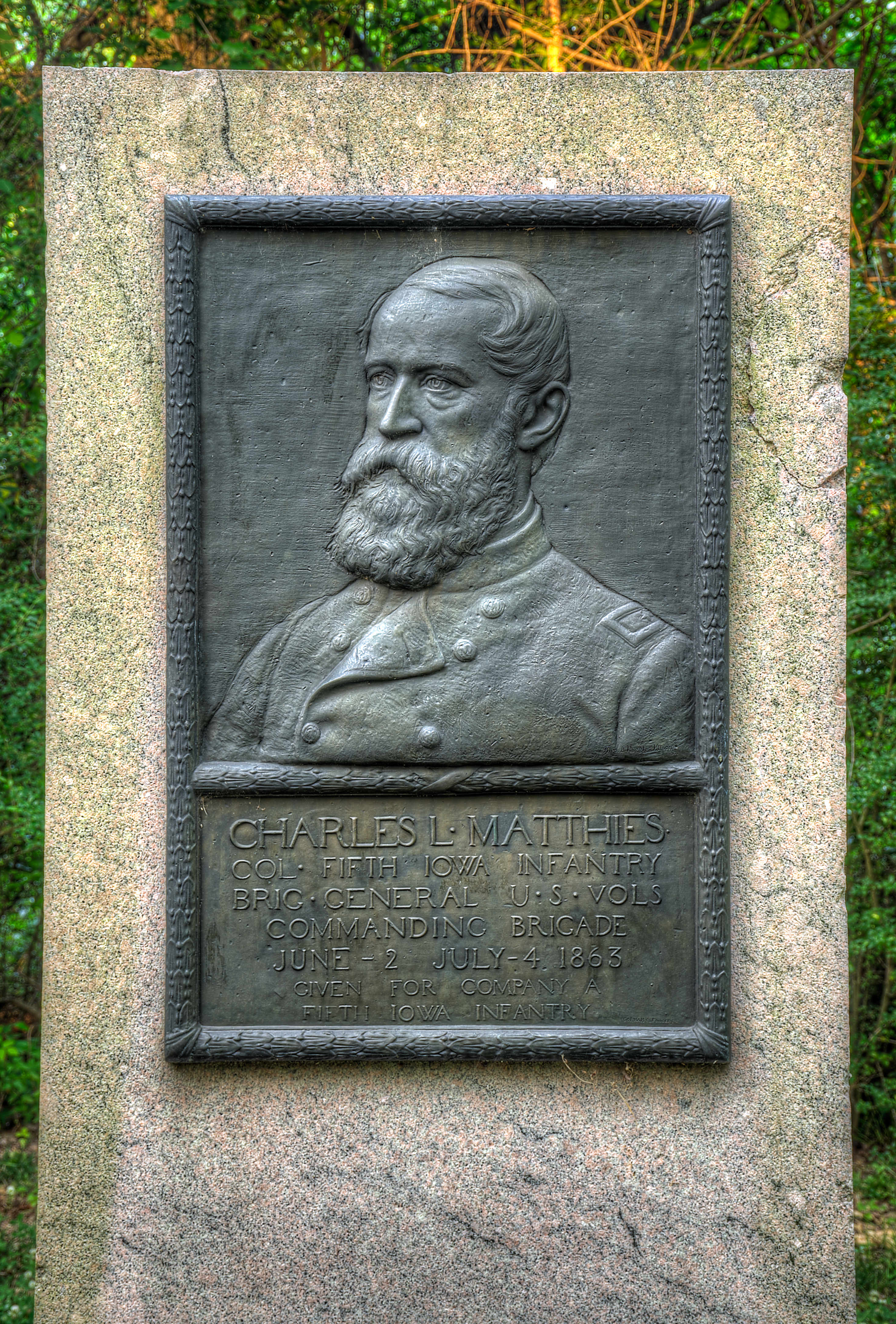 bronze relief portrait of Col. Charles L. Matthies (1913) at Vicksburg National Military Park